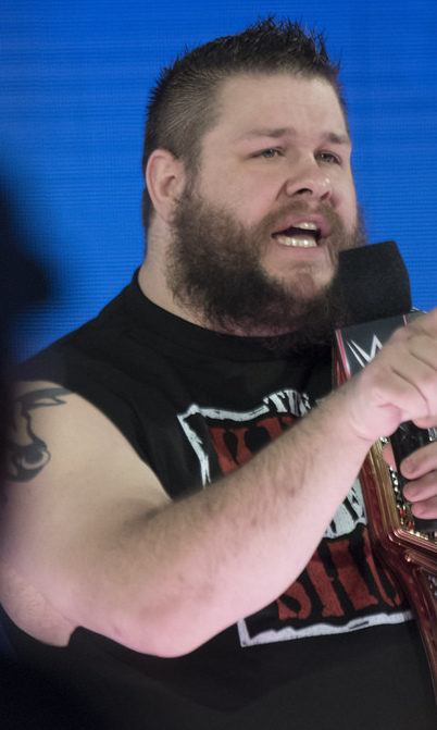 This image shows professional wrestler Kevin Owens performing at the 14th annual Tribute to the Troops event in December 2016.